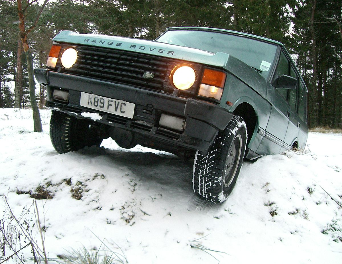 author: Tim Coles The picture shows a 1993 Range Rover Classic Vogue 3.9